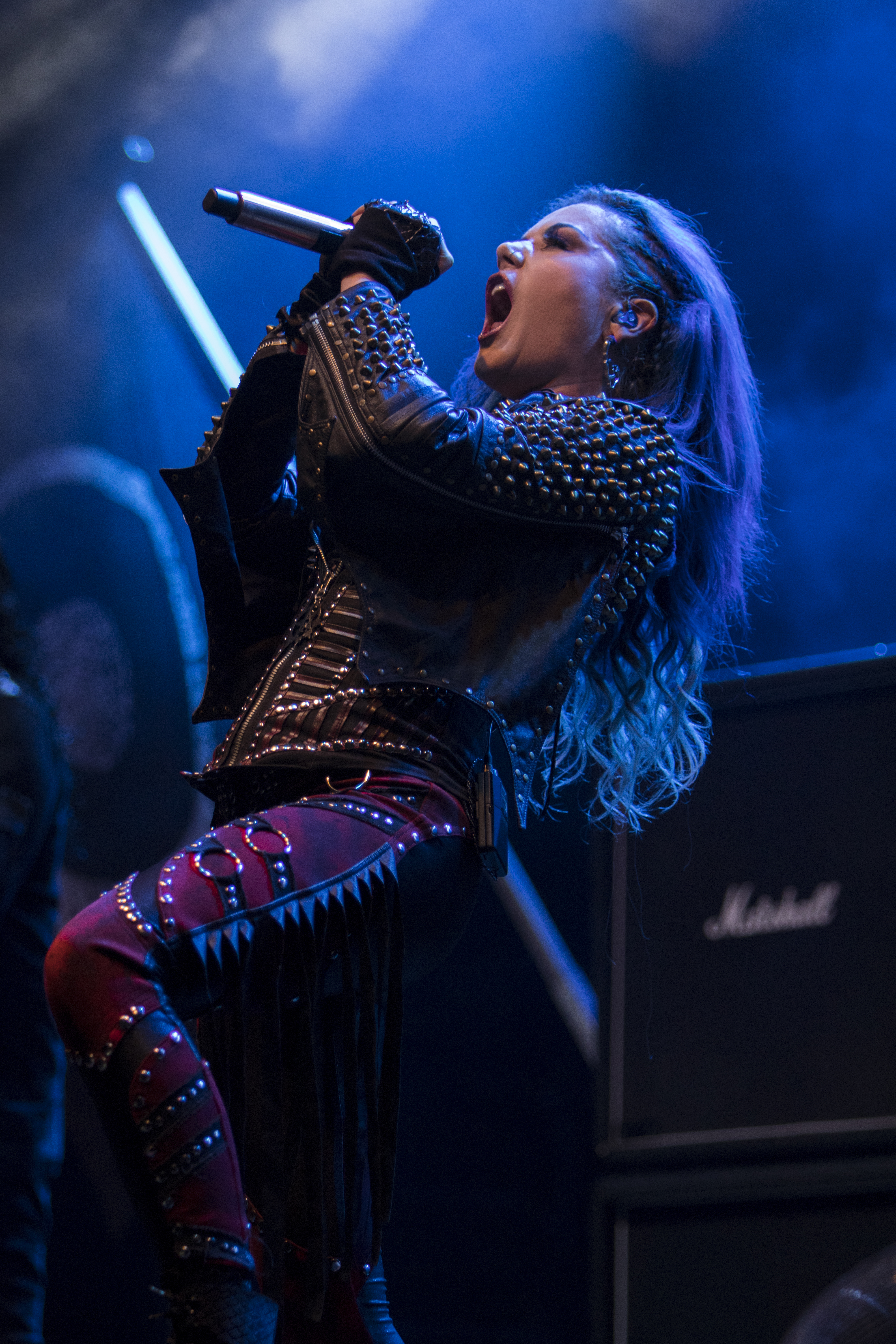 Arch Enemy at John Smith 2019 festival in Peurunka, Finland